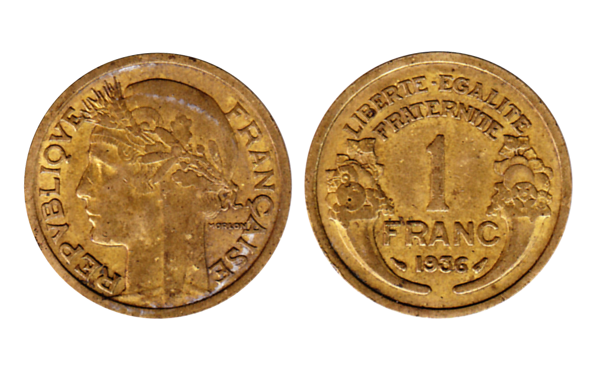 French Coin. Value: 1 Franc. Date: 1936. Front Side: Caption: Republique Francaise; Morlon. Image: Stylised, side view of a woman (maybe personification of France) wearing phrygian cap with ribbon, crowned with wreath of misteltoes and cereals. Reverse Side: Caption: Liberte Egalite Fraternite. Image: Digit 1 flanked by cornucopias filled with fruits, grapes of wine and leafs and flower of ivy.